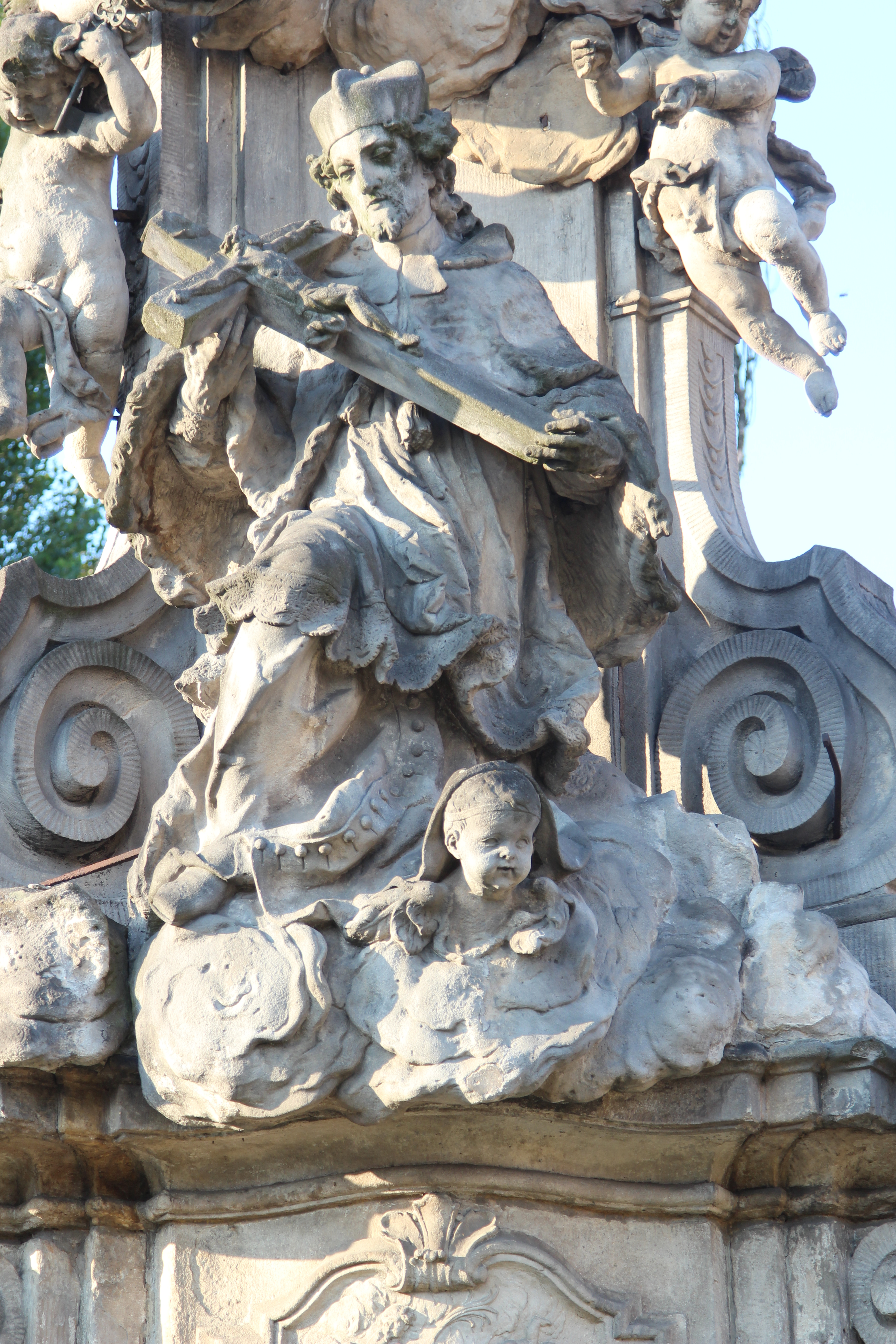 Nepomuk from statue of Mary with Child and St. John of Nepomuk in front of Lesnica Castle.